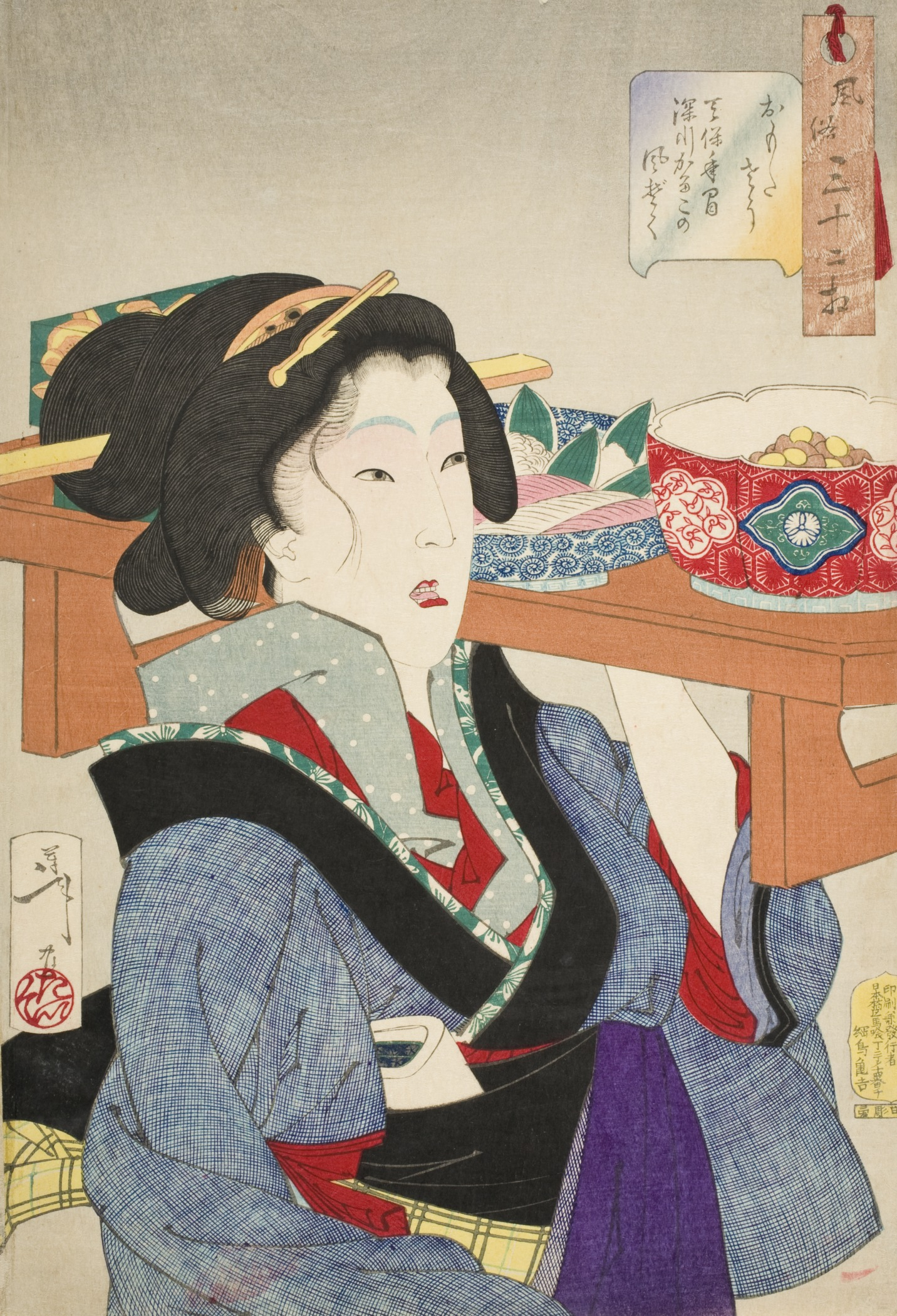 tenth month, 1888 Series: number 12 Prints; woodcuts Color woodblock print Gift of Arthur and Fran Sherwood (M.2007.152.57) Japanese Art